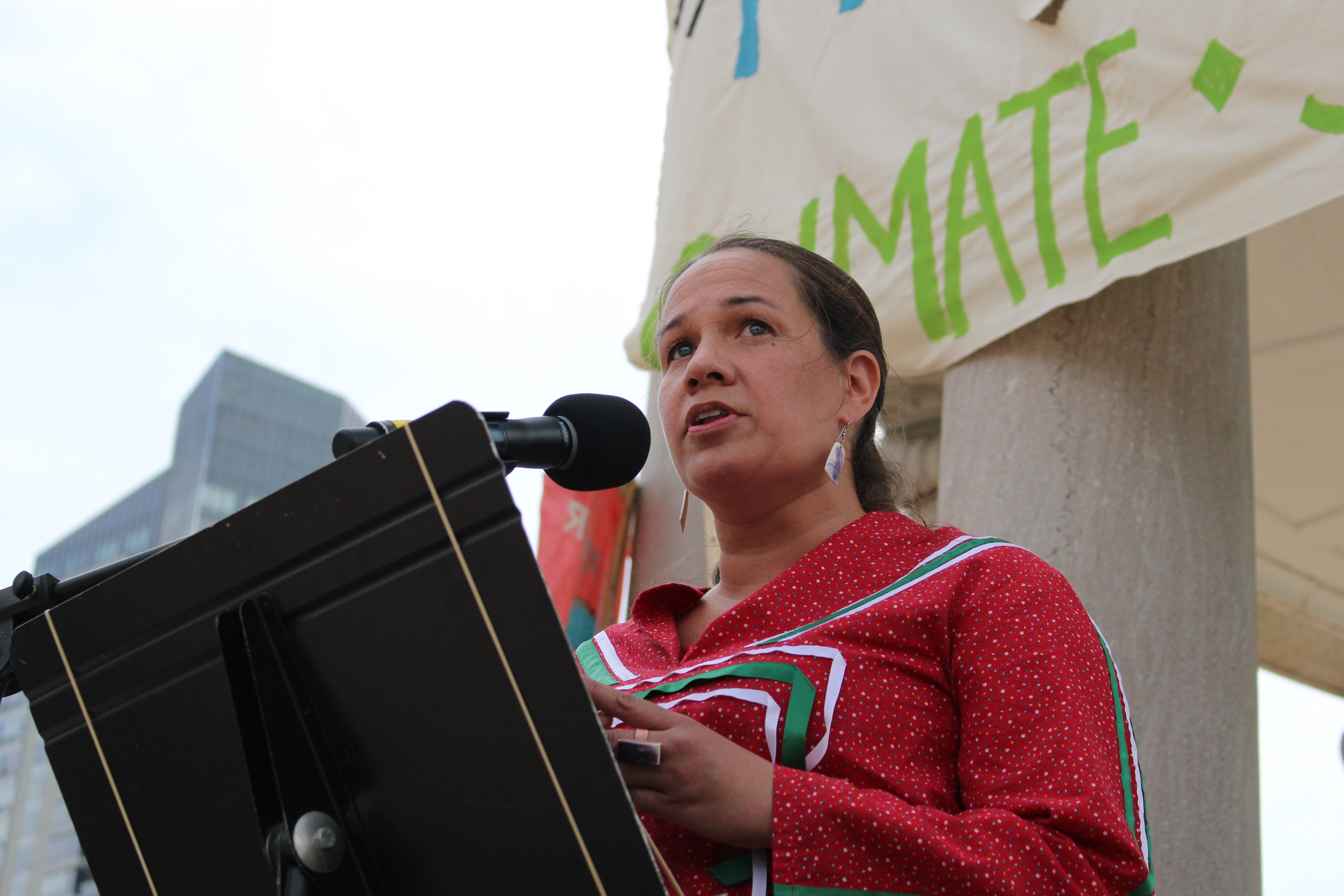 Kristen Wyman, member of the Natick Nipmuc tribe of Massachusetts, Outreach and Program Coordinator, Gedakina Credit 350 Massachusetts